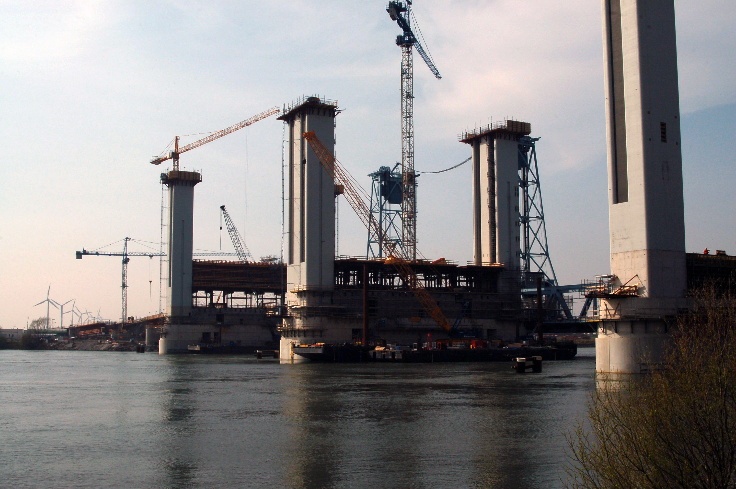 A picture of the new Botlekbrug under construction. The old Botlekbrug is seen in the background.